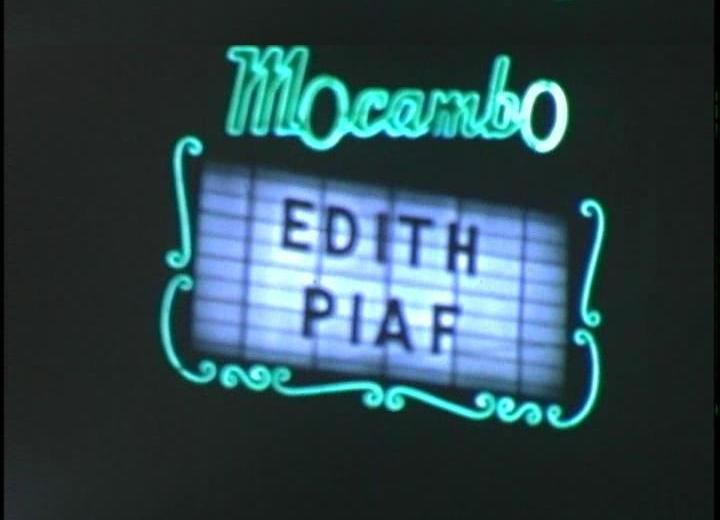 Mocambo nightclub neon sign on Sunset Strip — in West Hollywood, California, 1955.